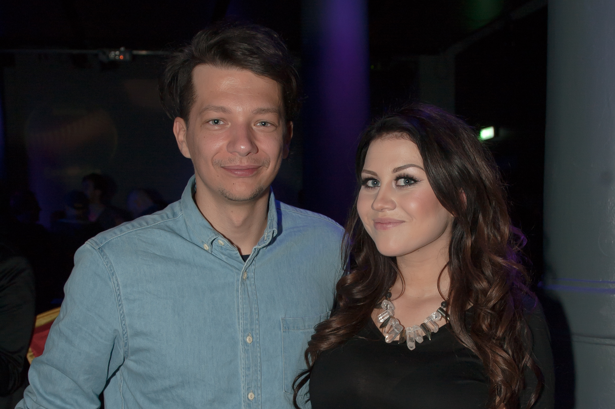 Eurovision Song Contest Vienna 2015: Elina Born & Stig Rästa